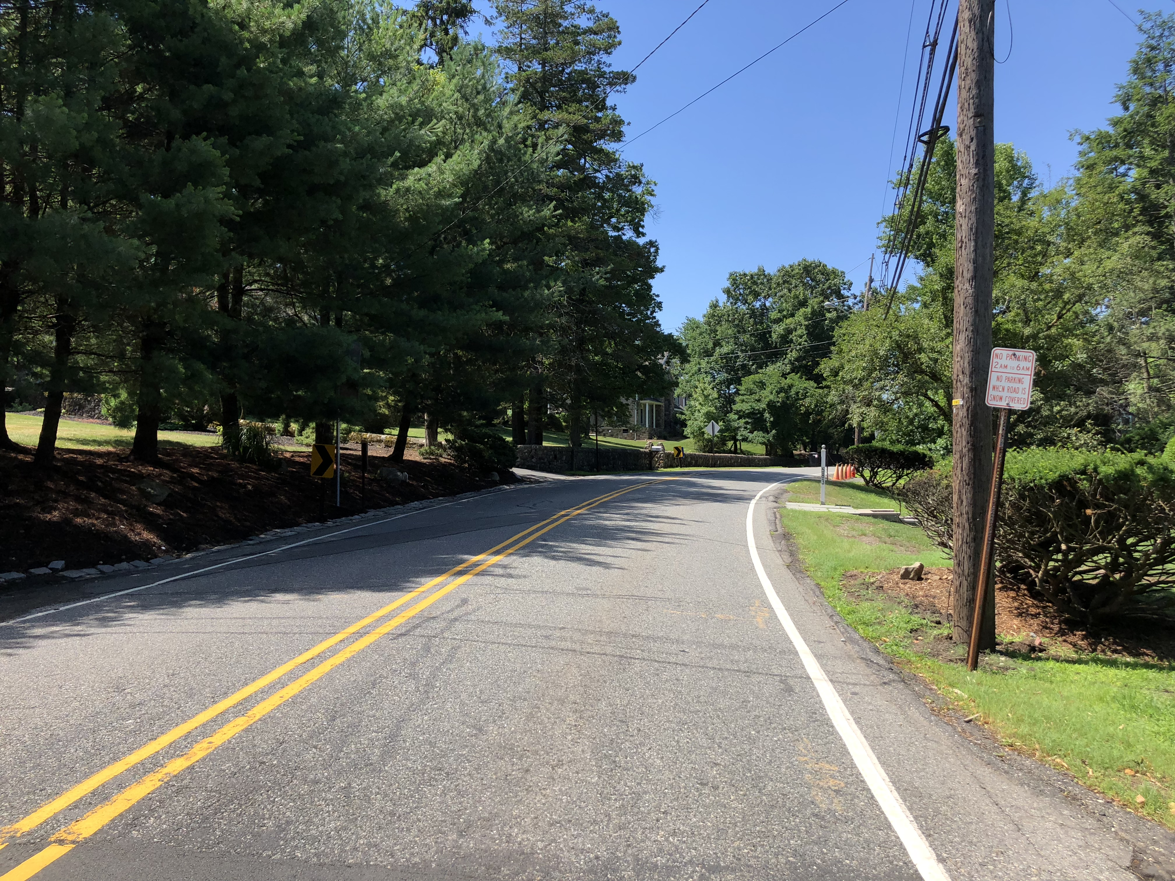 View south along Essex County Route 527 (Mountain Avenue) just north of Pine Place in North Caldwell, Essex County, New Jersey